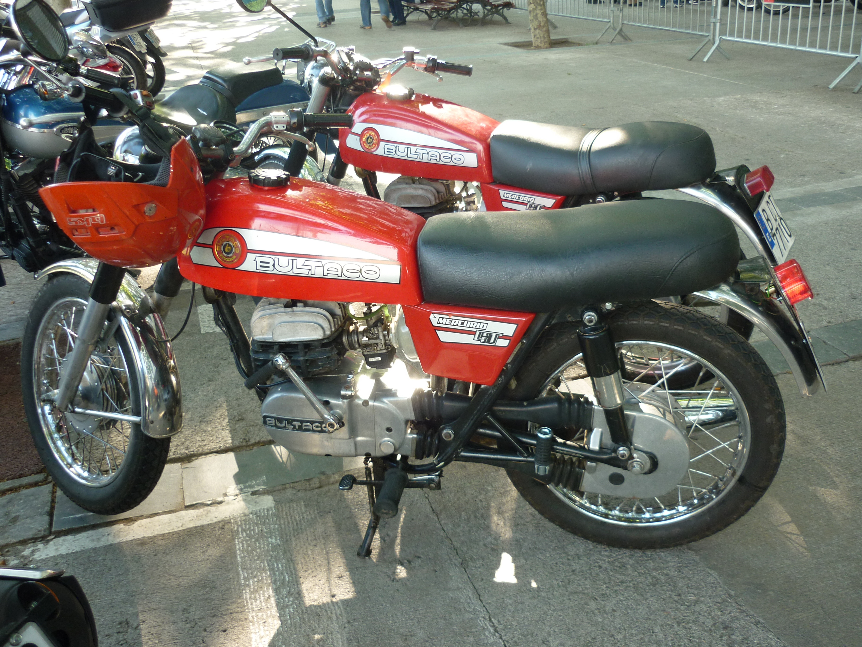 A couple of Bultaco Mercurio 175 GT by 1976